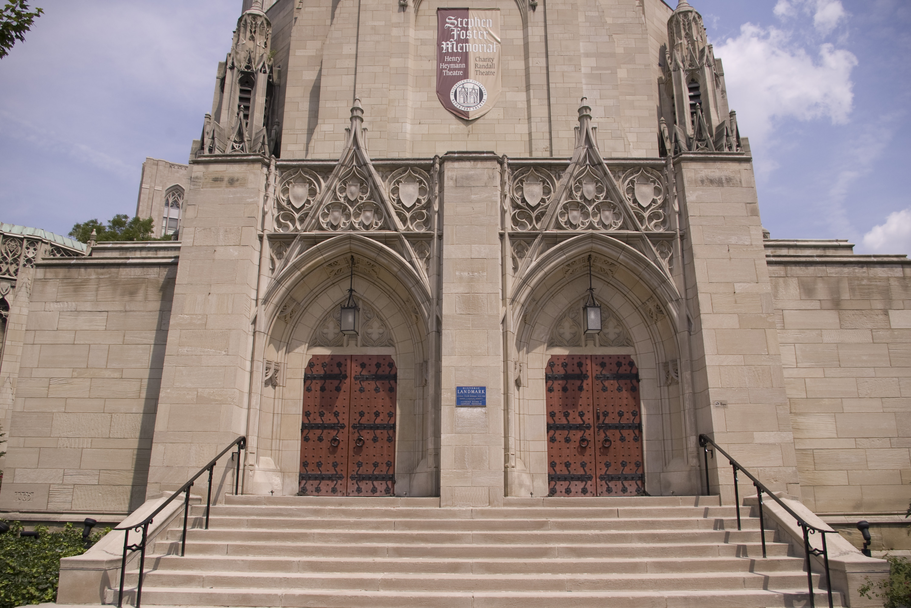 Stephen Foster Memorial, University of Pittsburgh. Front entrance.